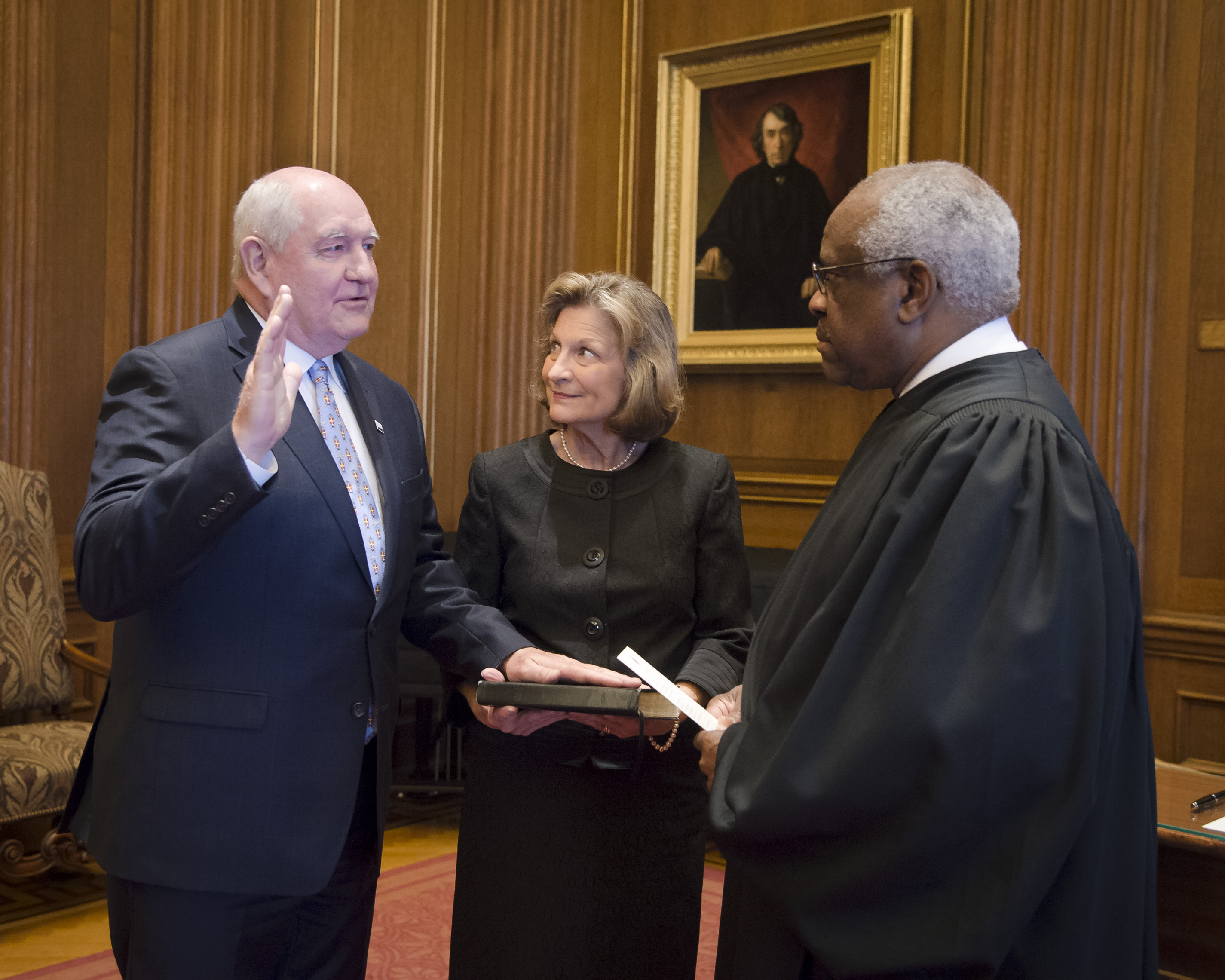 Sonny Perdue is sworn in as the 31st Secretary of Agriculture by U.S. Supreme Court Justice Clarence Thomas with his wife Mary Ruff and family April 25, 2017, at the Supreme Court in Washington, D.C. Photo by Preston Keres